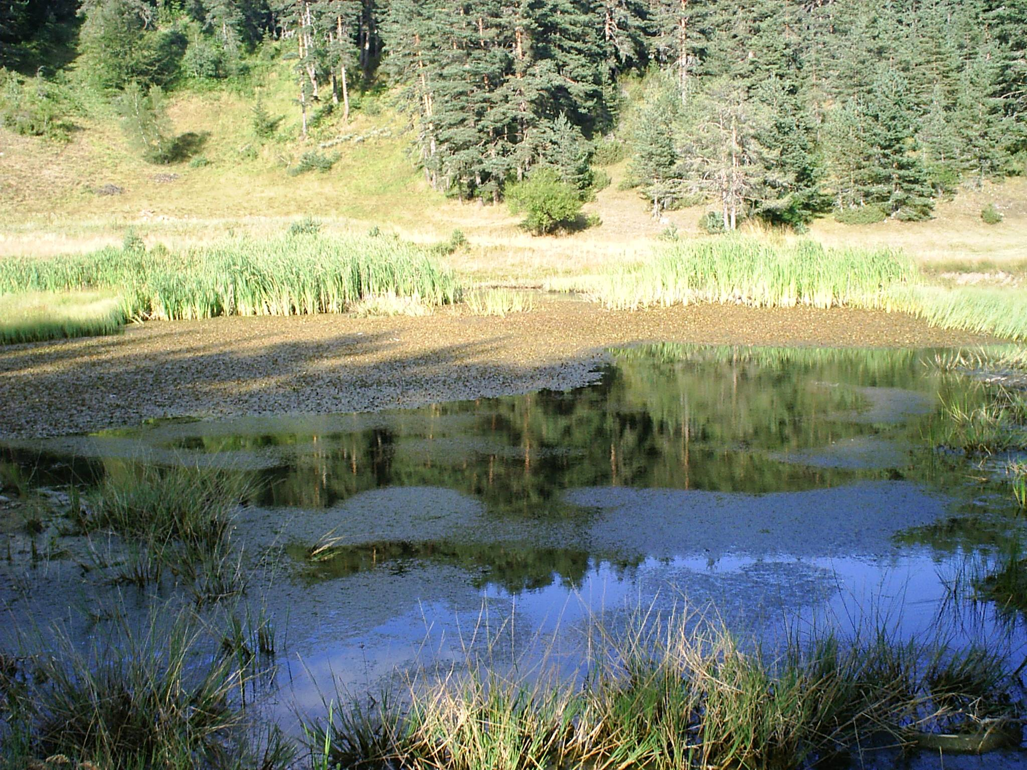 A lake at Suhbattuka formed by Koru Dere River.